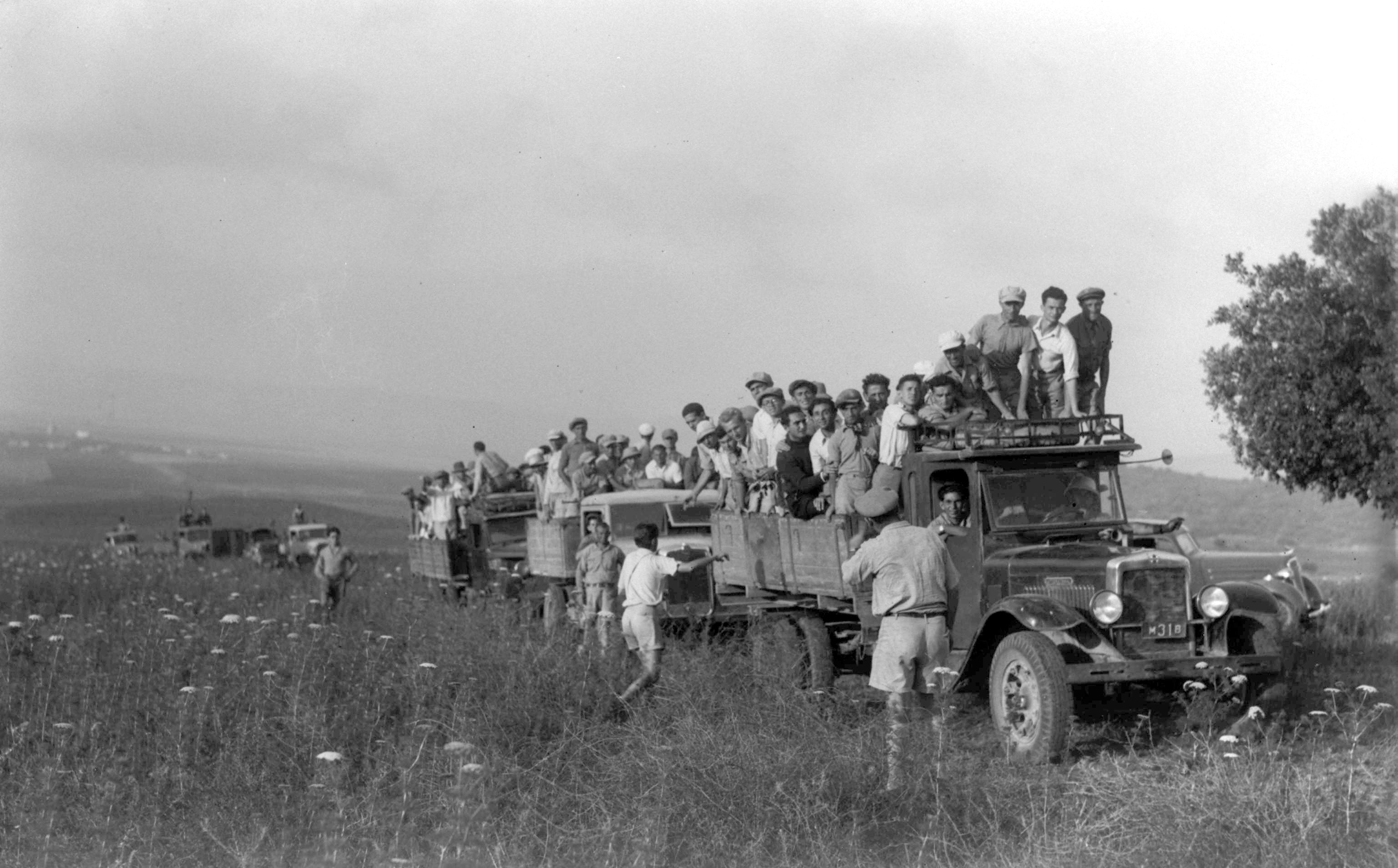 kibbutz alonim - Trucks with building materials and volunteer helpers arriving at the site of kibbutz alonim to help in the establishment of the new settlement.